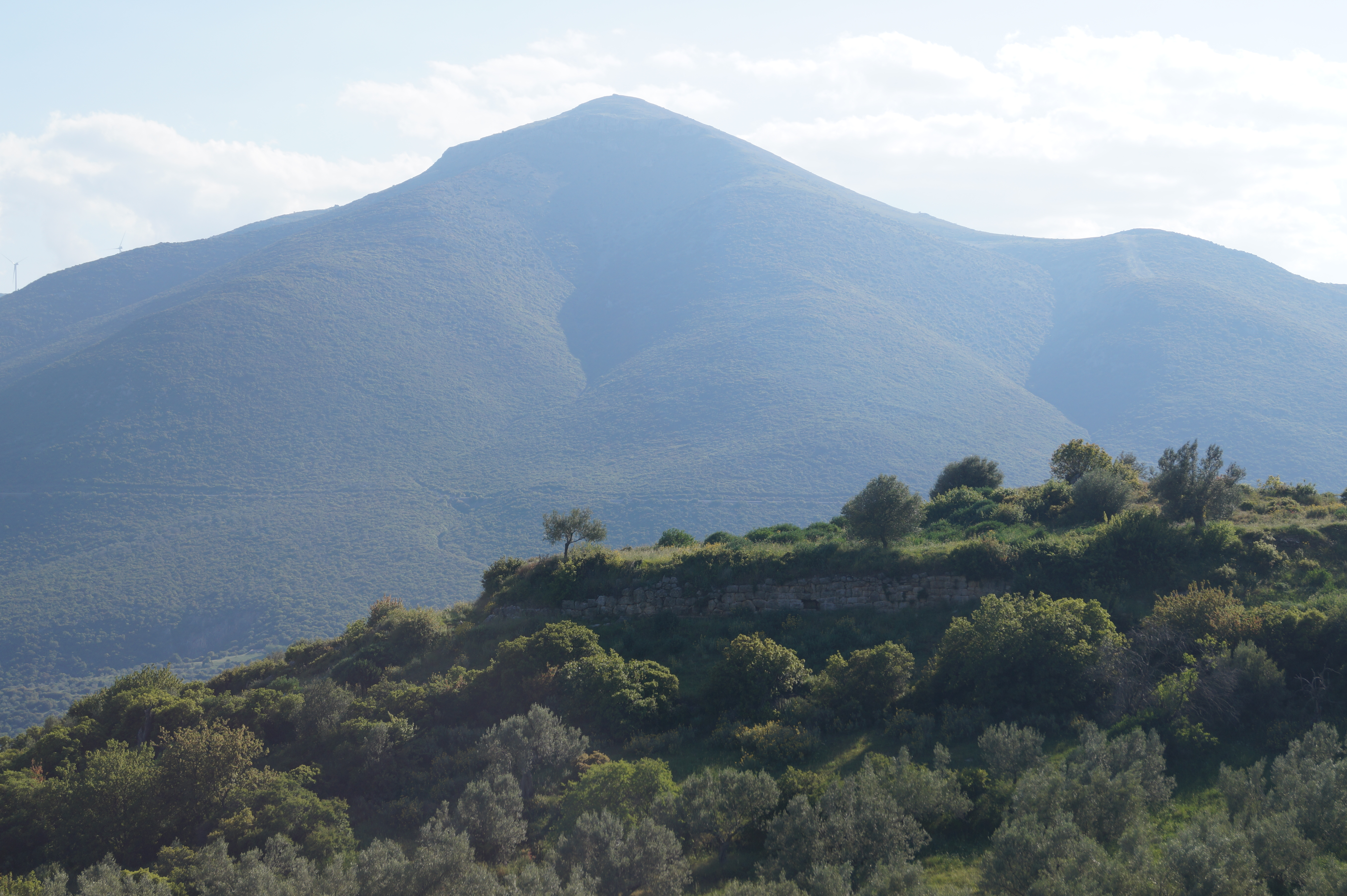 Achladokampos, Peloponnes, Greece: View from east on ancient Hysiae. In the background there is the Mount Parthenion.